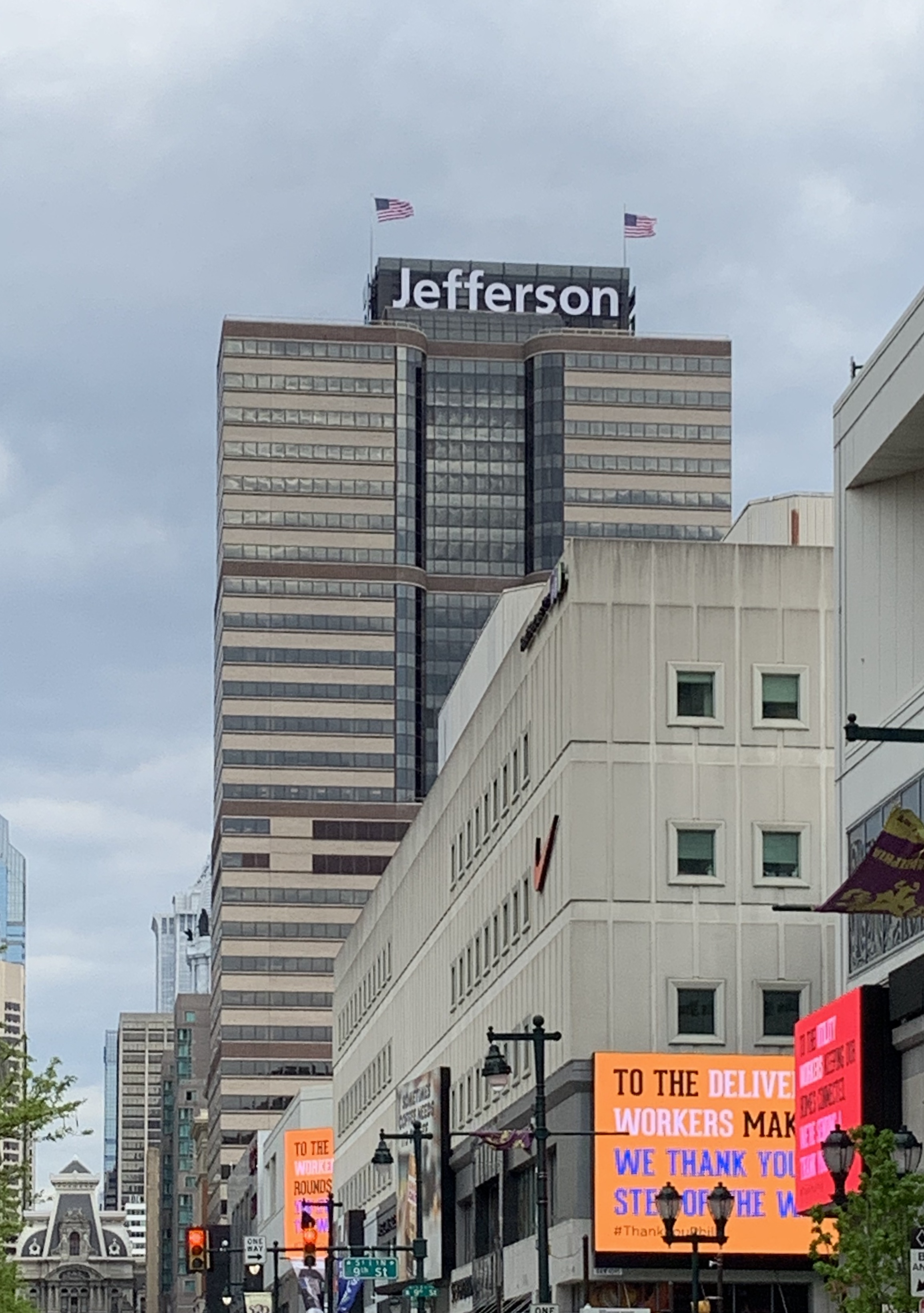 Jefferson Tower (Former Aramark Tower) with updated signage